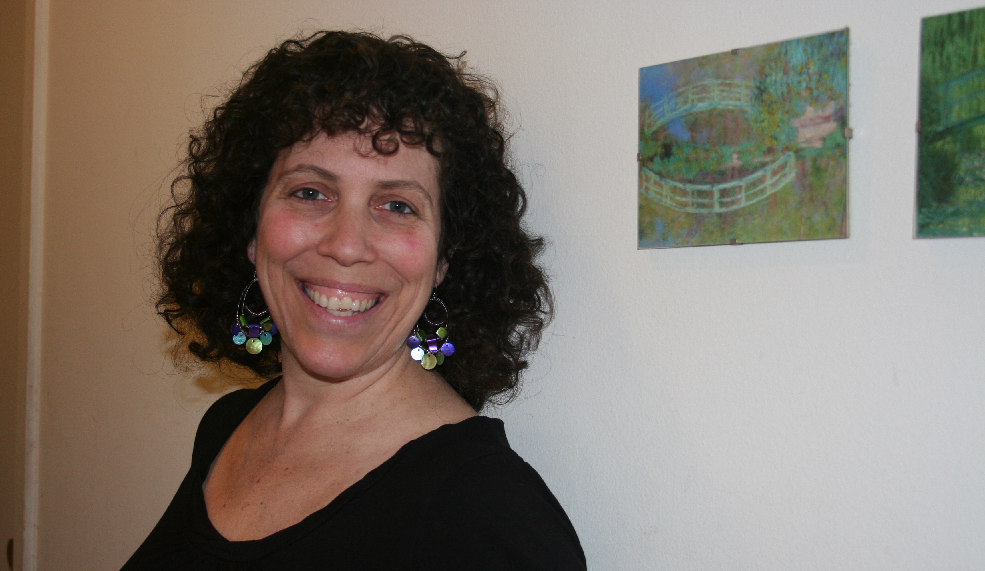 A picture of Tal Rabin